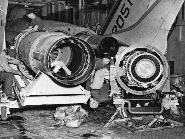 Meintenance on a U.S. Navy Vought F7U-3M Cutlass from Attack Squadron VA-116 "Roadrunners" in the hangar bay of the U.S. Navy aircraft carrier USS Hancock (CVA-19). The F7U-3M was powered by two Westinghouse J46-WE-8B after-burning turbojet engines. VA-116 was assigned to Air Task Group 2 (ATG-2) aboard Hancock for a deployment to the Western Pacific from 6 April to 18 September 1957.